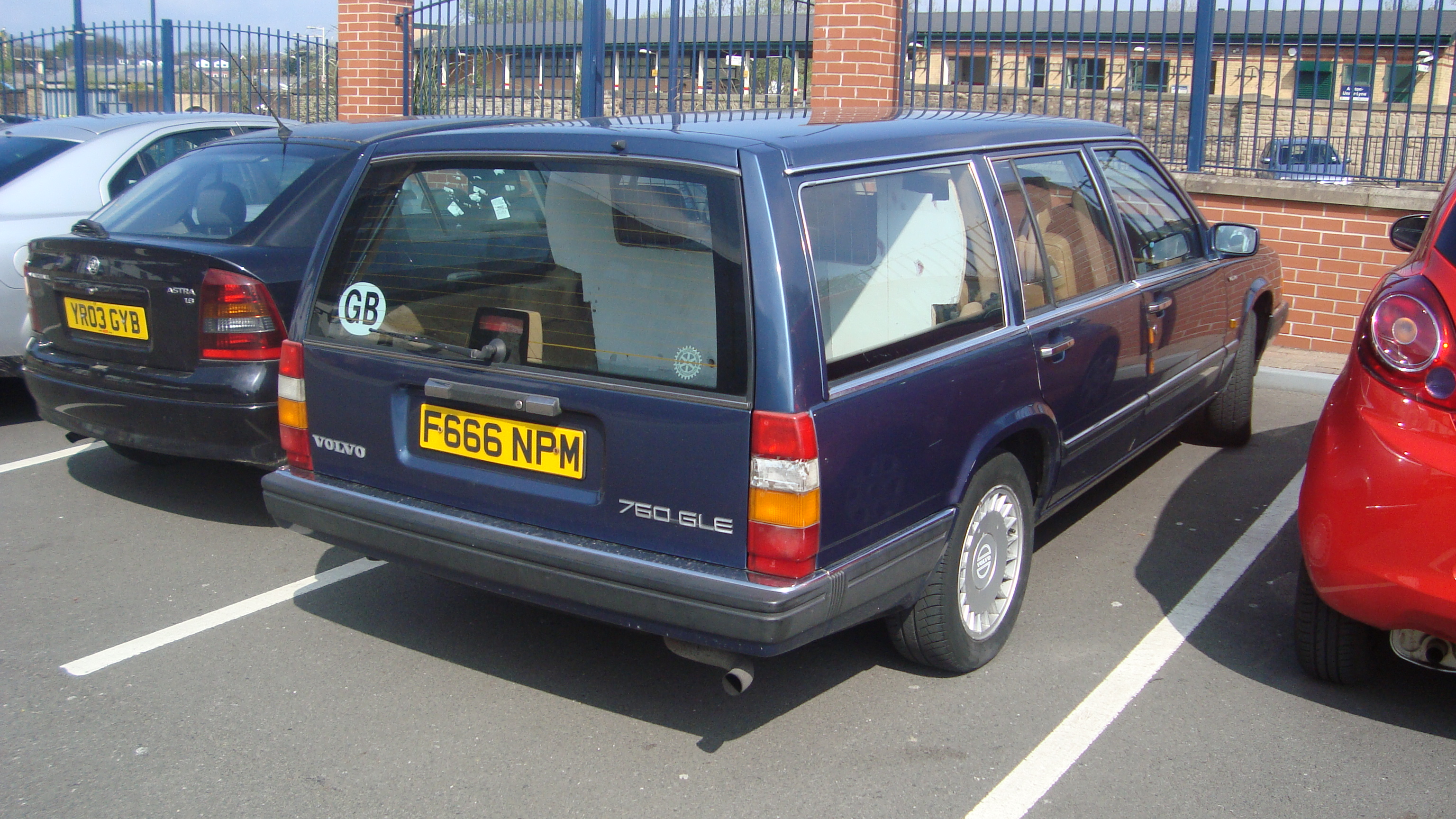 I love these Volvos so was very happy to stumble across this